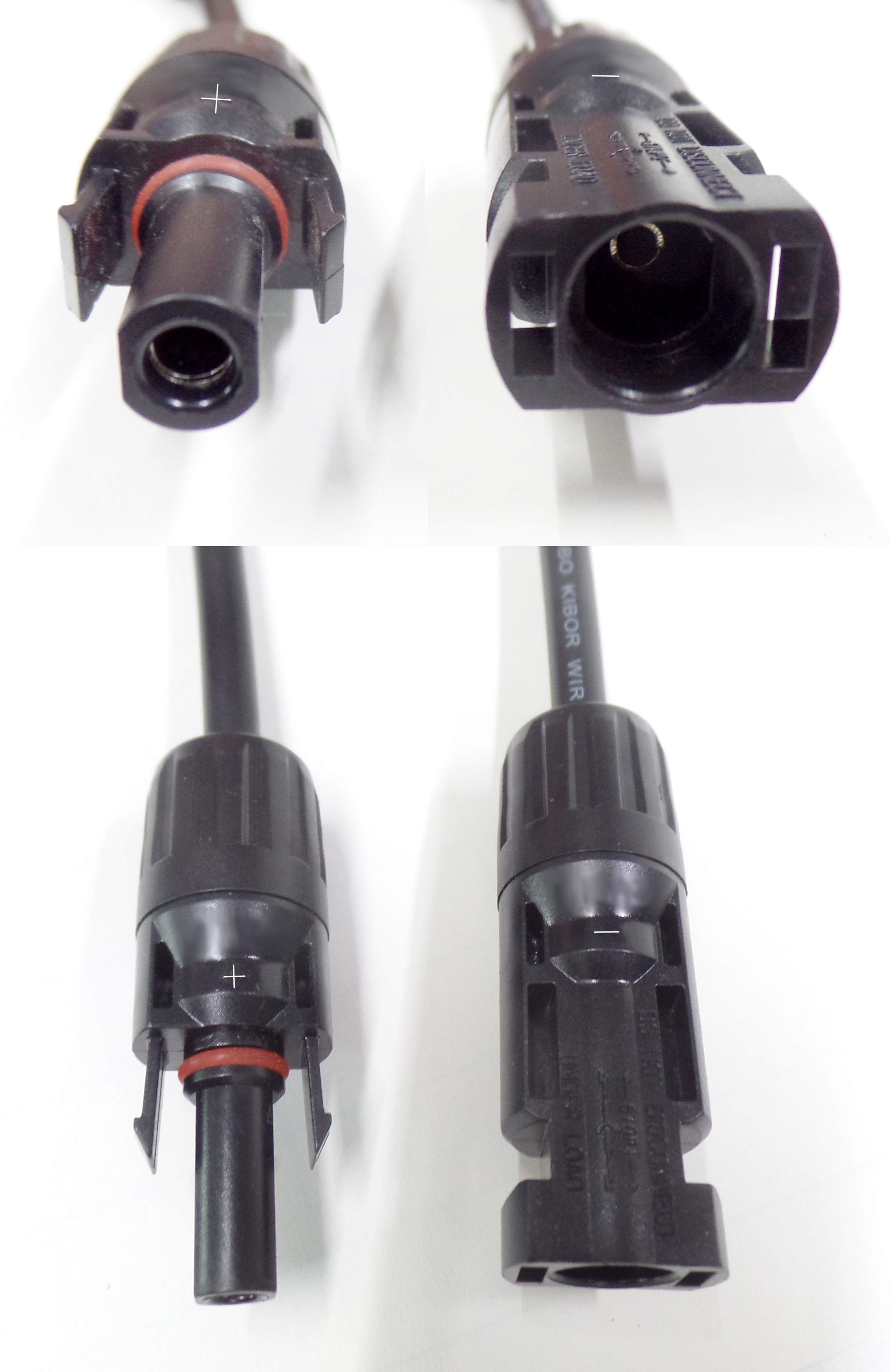 These MC4 connectors are used on solar panels. The positive (+) connector is on the left, and shows a red sealing ring, and the clips that secure the connector halves together. The negative (-) connector is on the right. The positive connector has male-type exterior plastic but a female-type metal electrical connector inside it, so "male" and "female" are not clear for MC4.